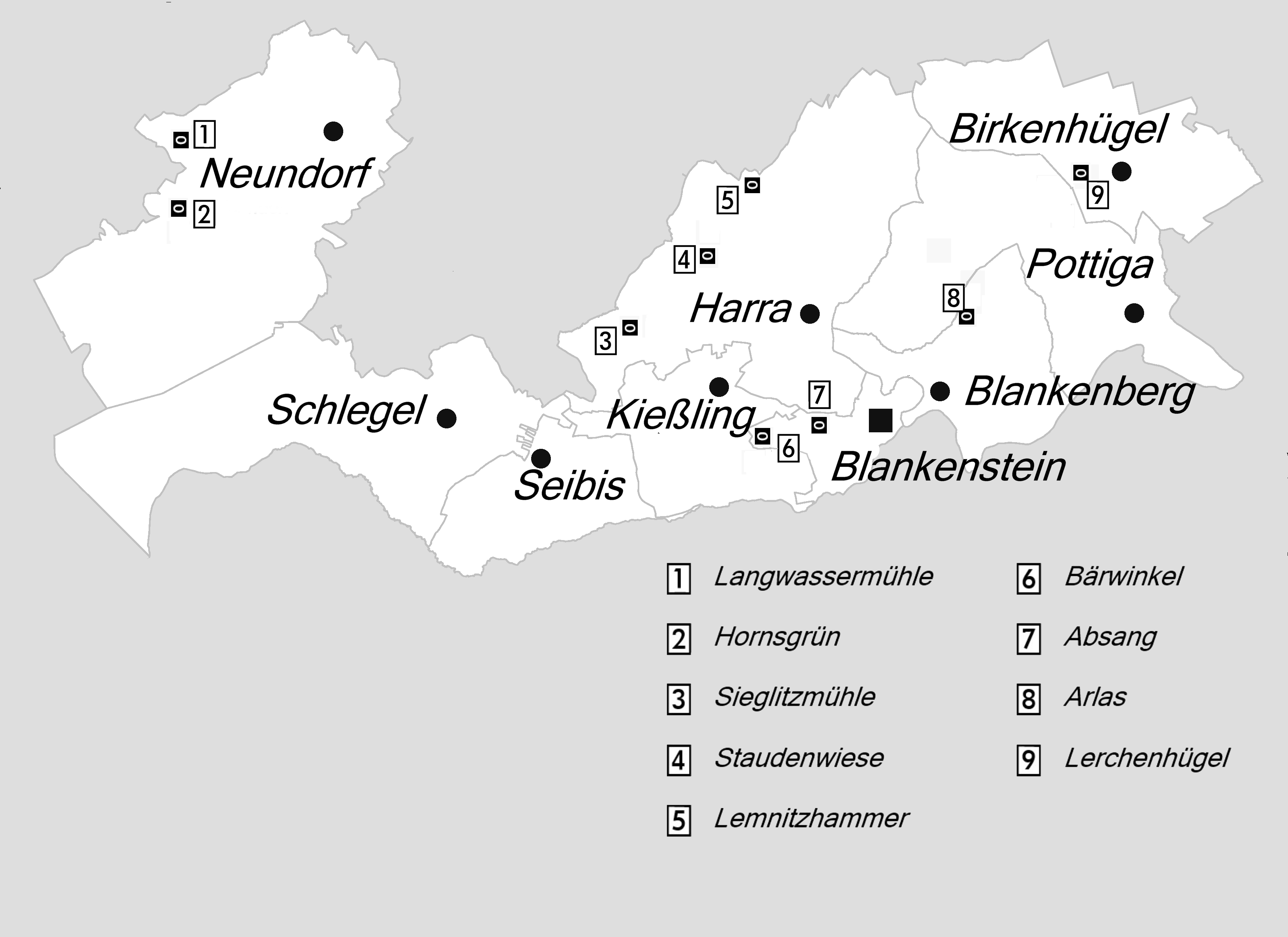 District-Maps of Rosenthal am Rennsteig